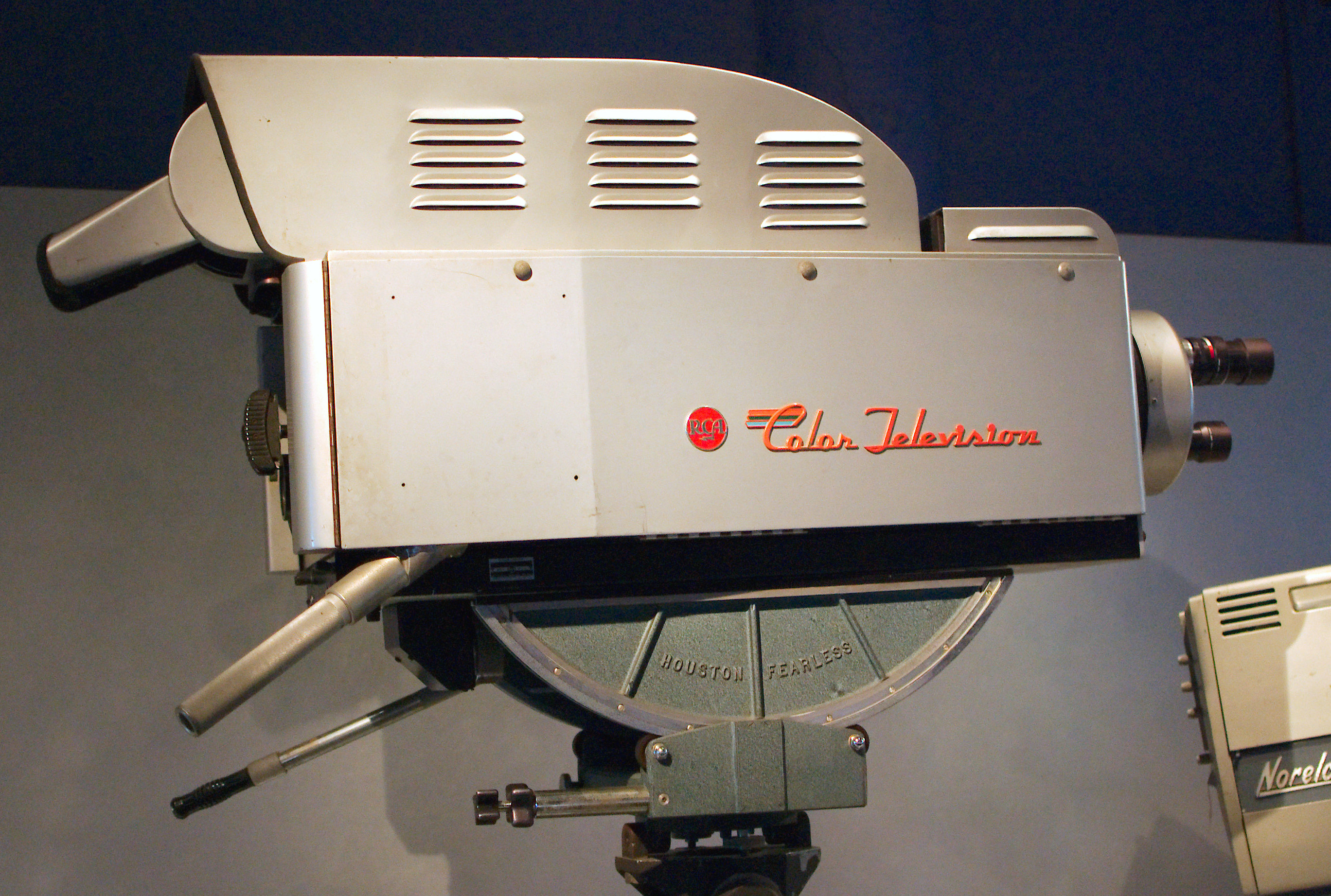 RCA Color Broadcast Camera TK-41C, a 1954 television camera. Its caption indicates it weighed 310 lbs.